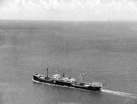 MS West Honaker arriving at Brisbane on 13 December 1940. AERIAL PORT QUARTER VIEW OF THE AMERICAN CARGO VESSEL WEST HONAKER. NOTE THE PROMINENT FLAG PAINTED ON THE SHIP'S SIDE PROCLAIMING HER NEUTRALITY.